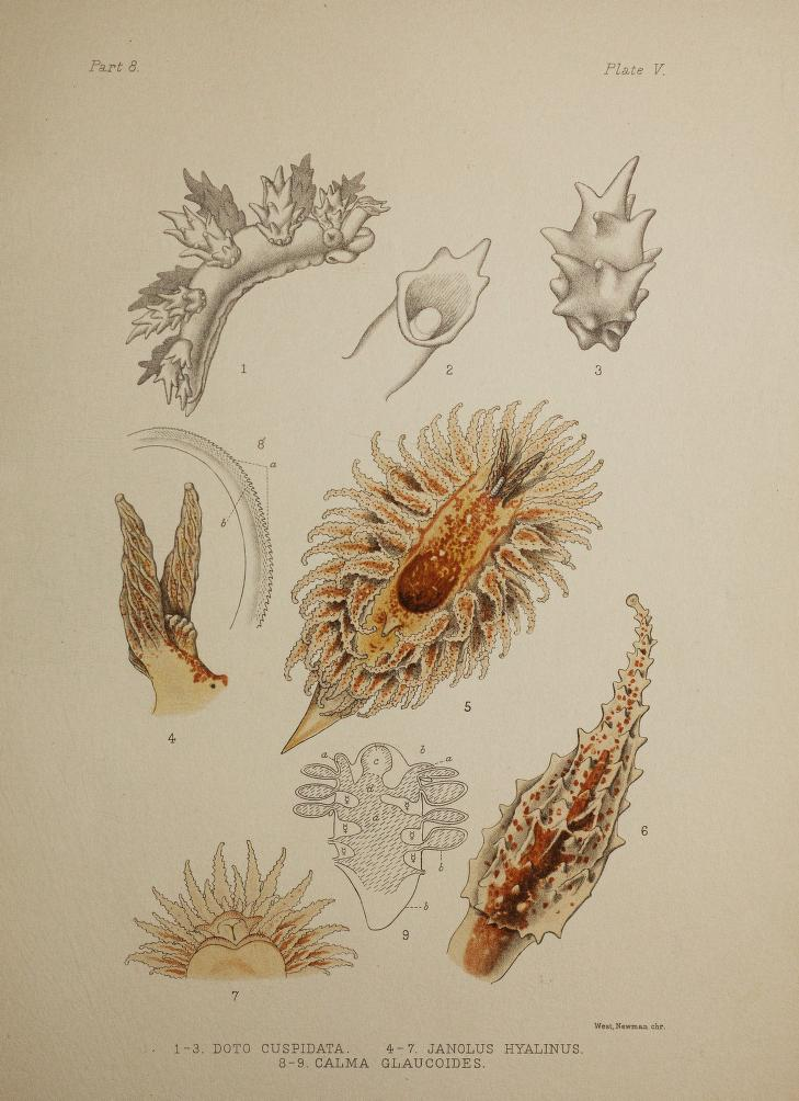 Alder and Hancock British Nudibranchiata Plate 5 text